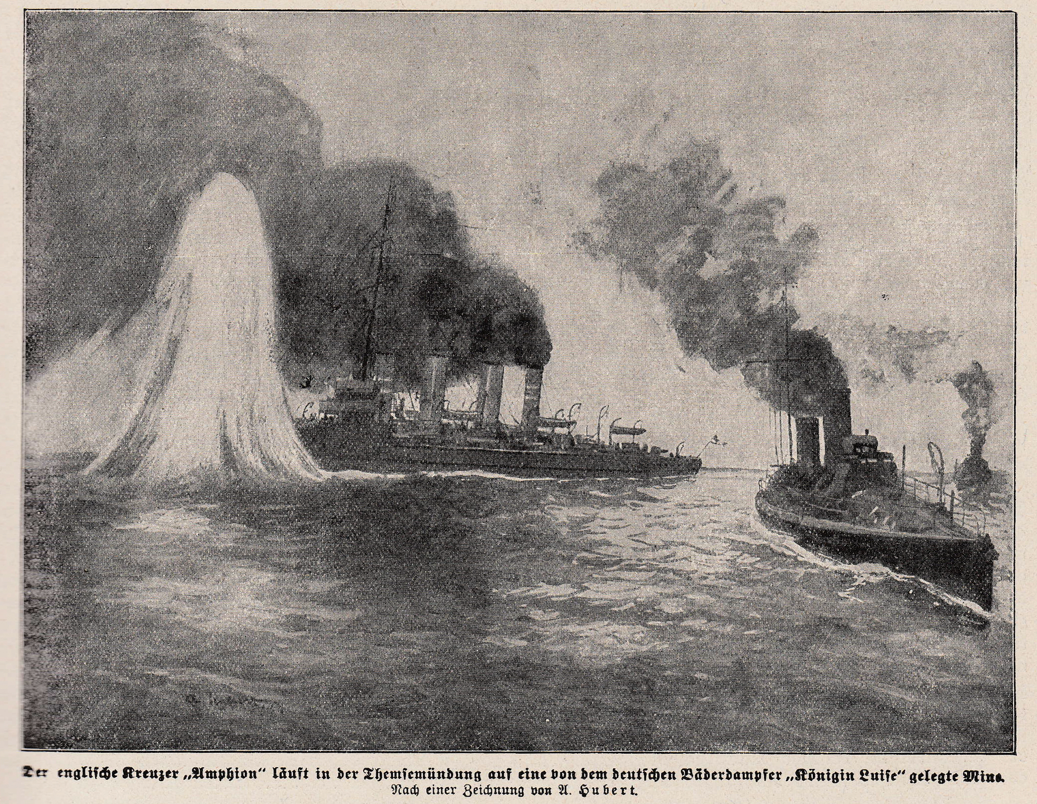 Der Krieg 1914-19 in Wort und Bild, published 1919, Deutsches Verlagshaus Bong & Co., Berlin, 1919